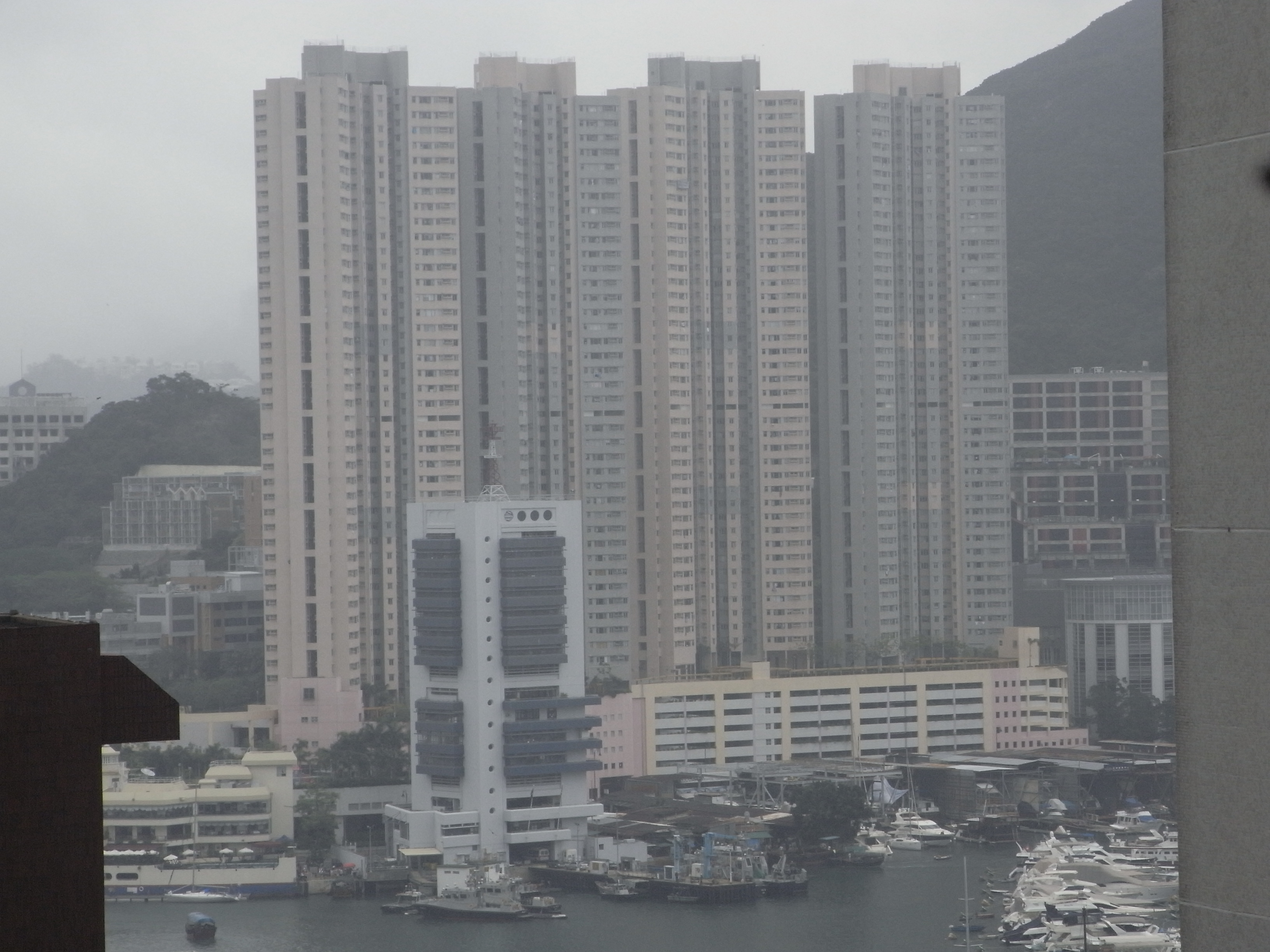 鴨脷洲 布廠灣 水警香港仔基地 雅濤閣